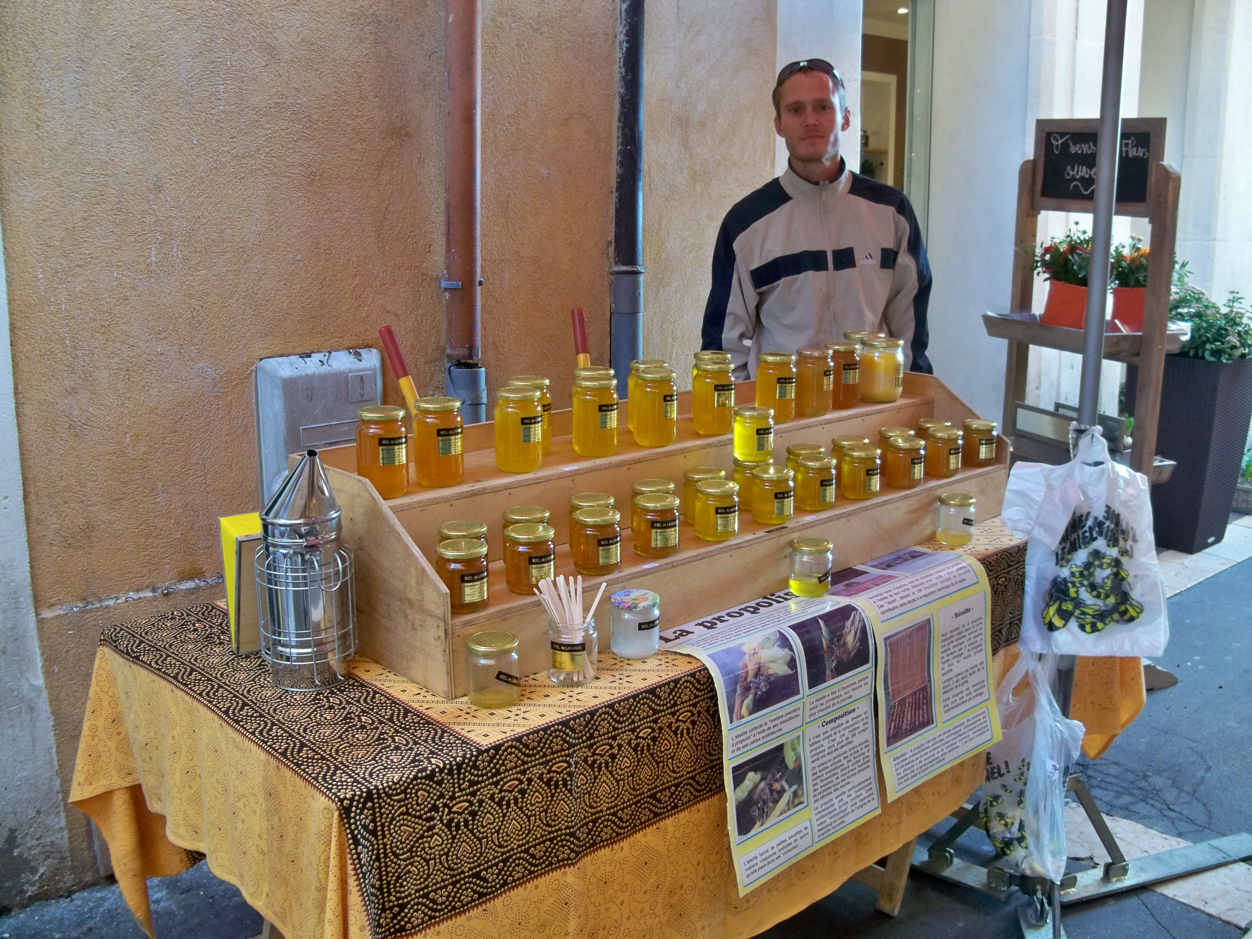 Honey saling on Apt market (Vaucluse, France)